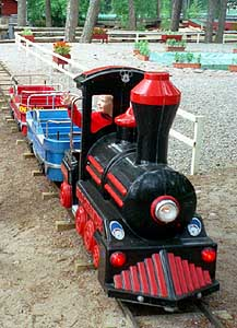 Kiddie amusement ride on beach in Hanko, Finland. Photo 2002 by J-E Nyström, User:Janke